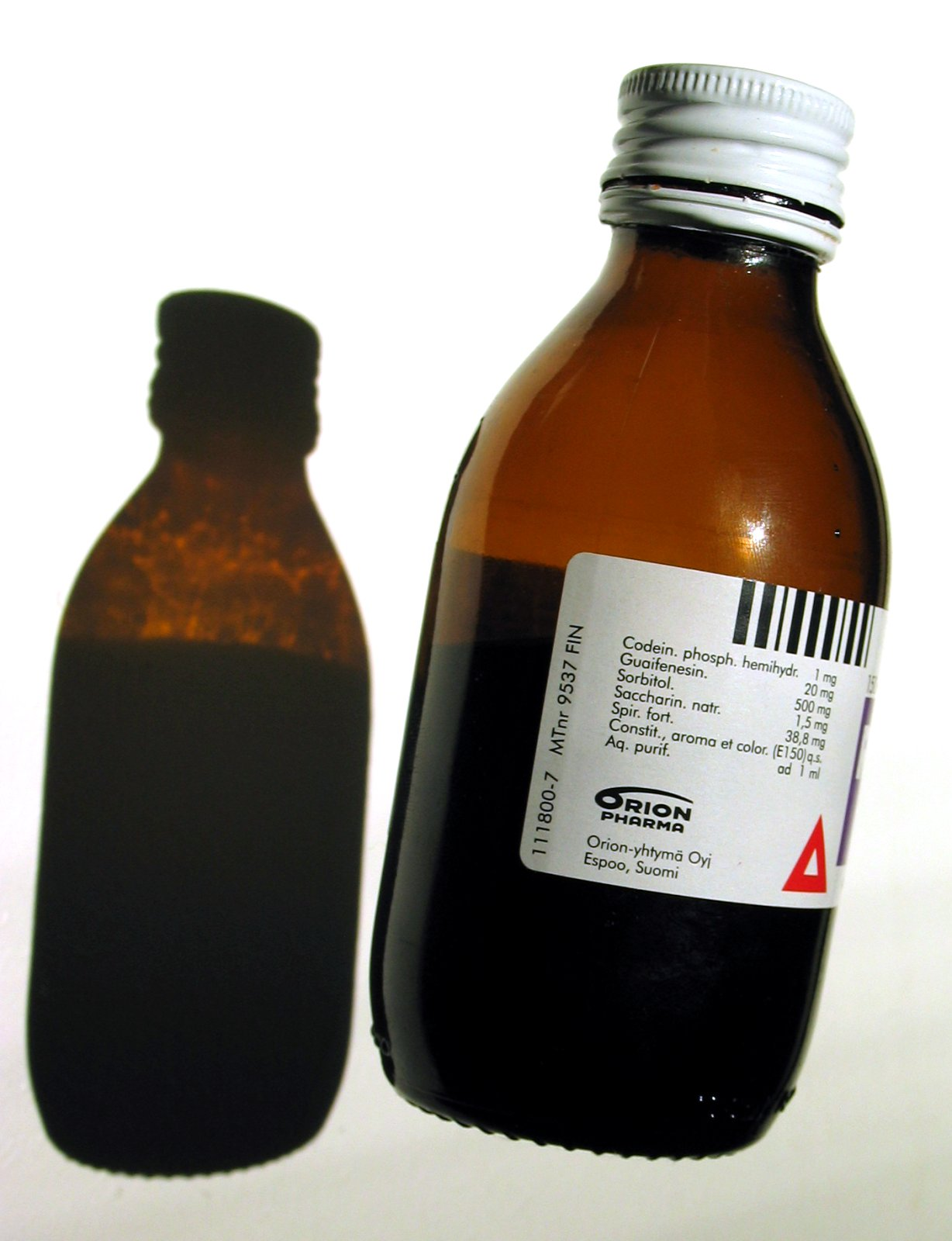 A bottle of Recipect® over-the-counter cough medicine.